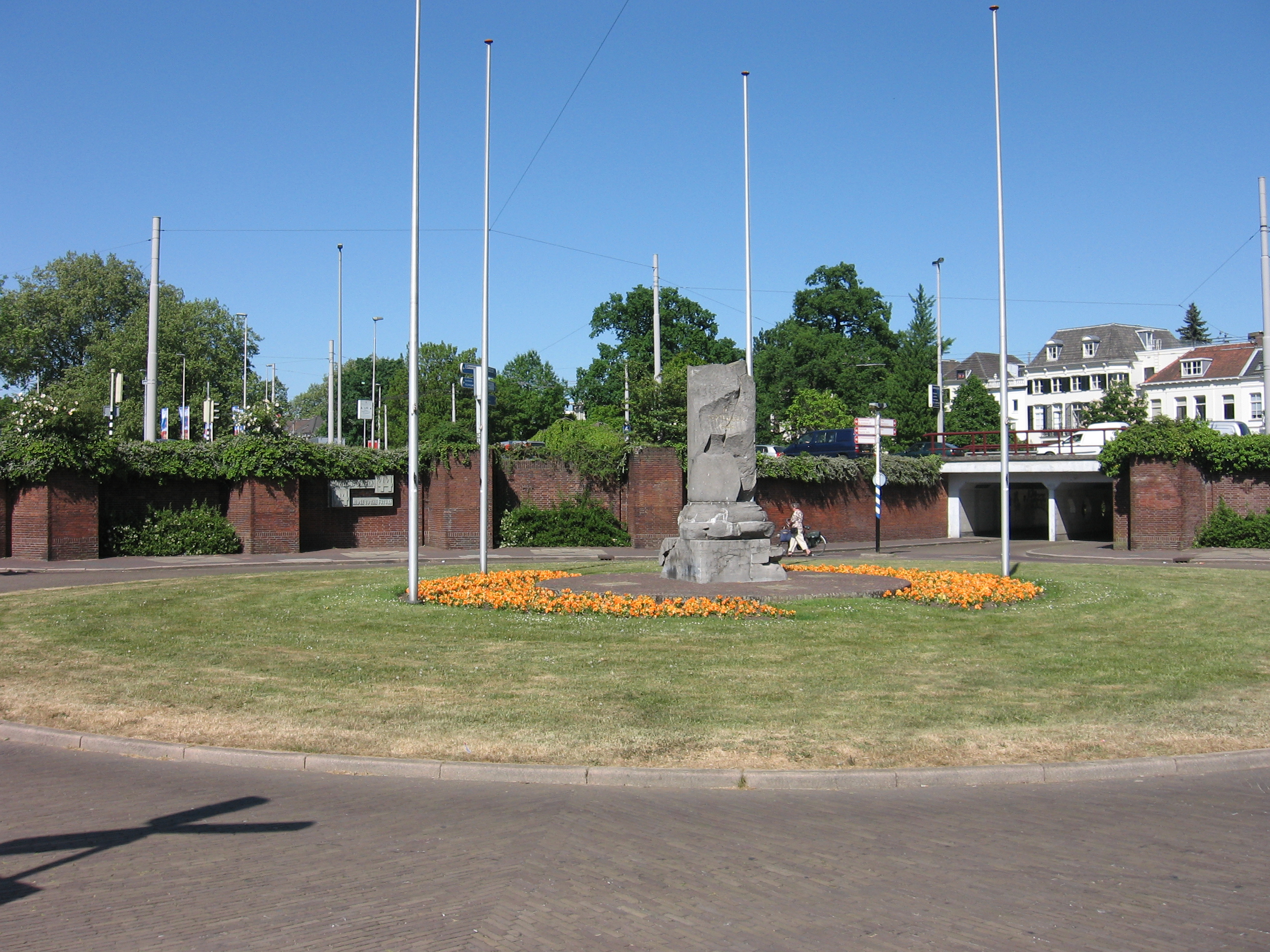 Airborneplein